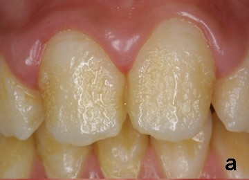 amelogenesis imperfecta, hypoplastic type. Note the pitted and ridged appearance of the enamel.